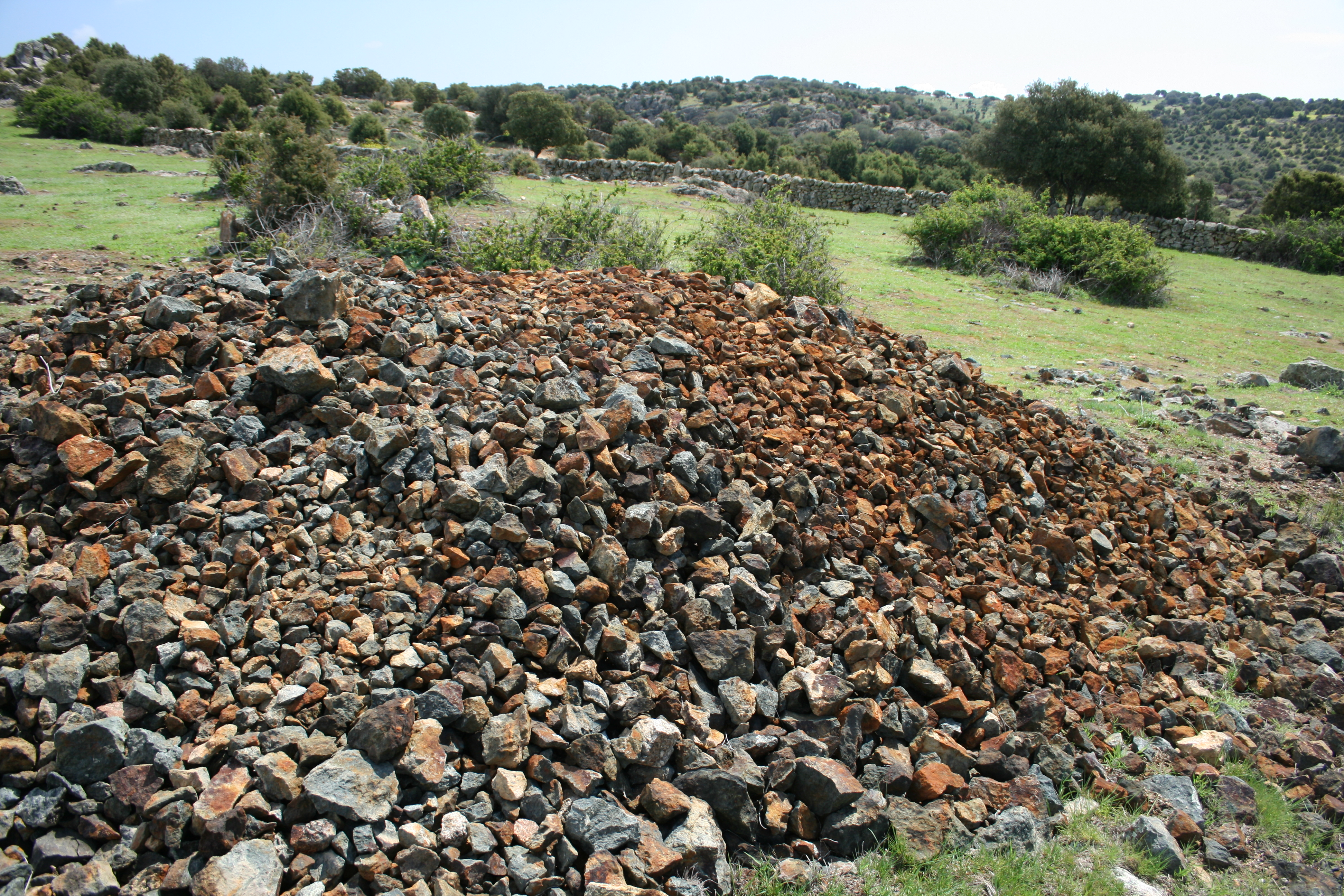 Mine in the Dehesa de Navalvillar, Colmenar Viejo, Madrid. España